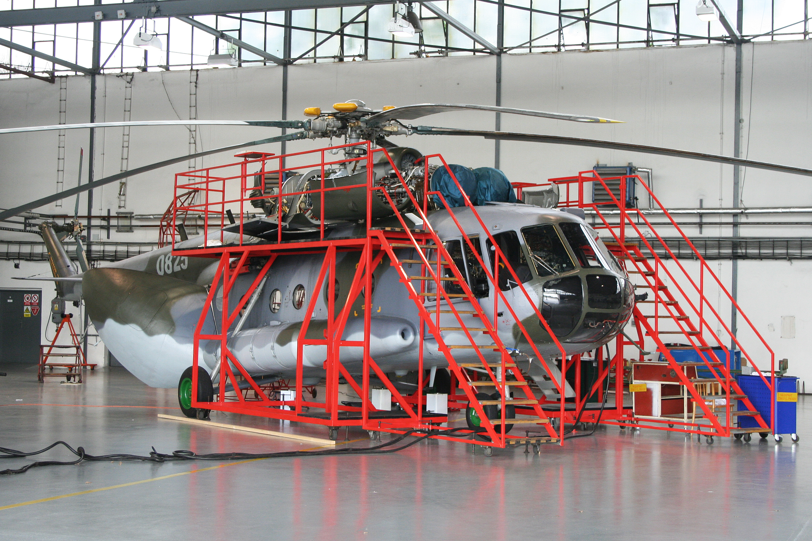 Operated by CLV. Seen in the maintenance hangar being serviced. msn 108M25. Pardubice, Czech Republic. 08-10-2012